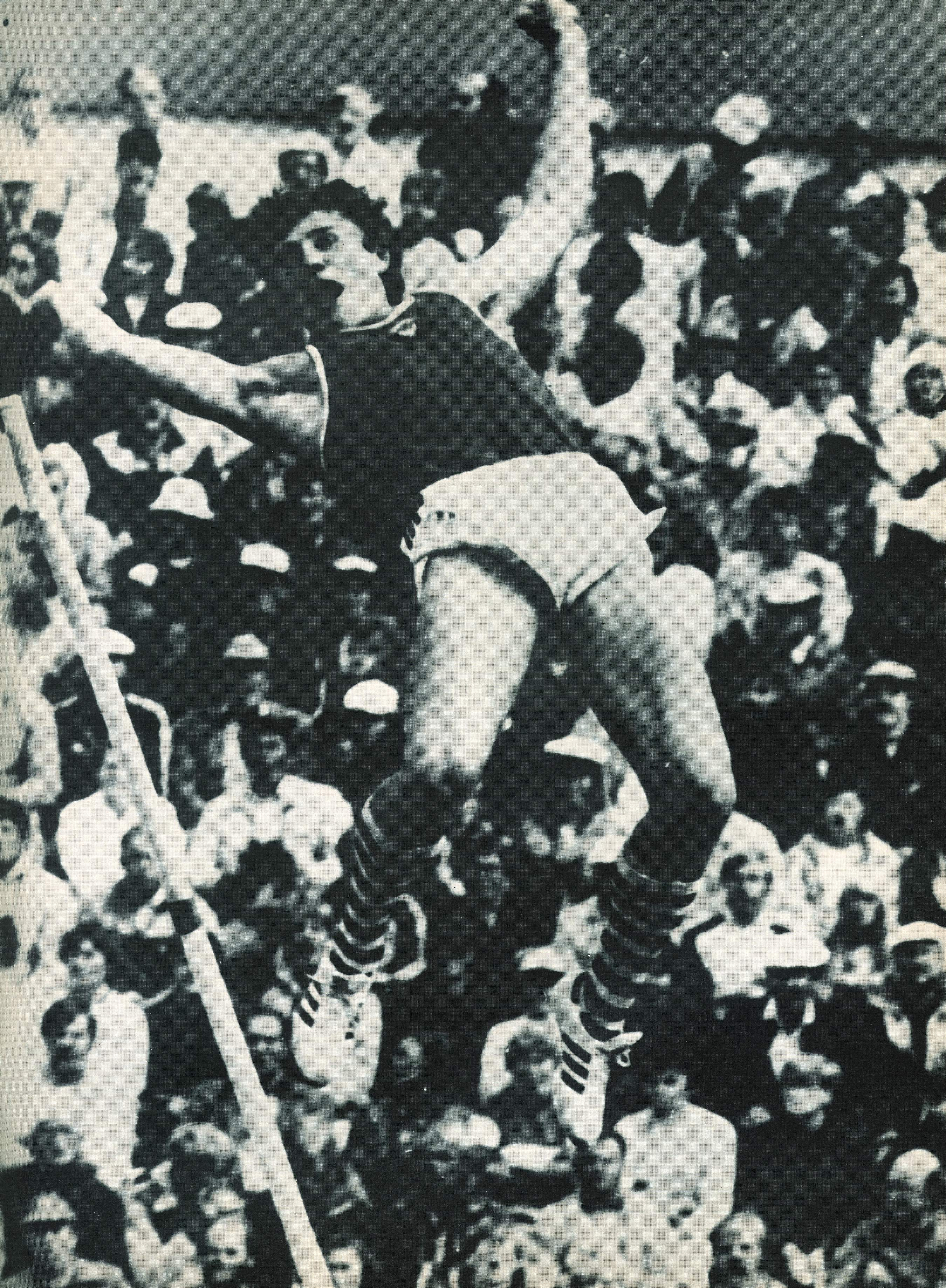 Serhiy Bubka at the World Championships in Athletics, in Helsinki, August 10, 1983. [1]